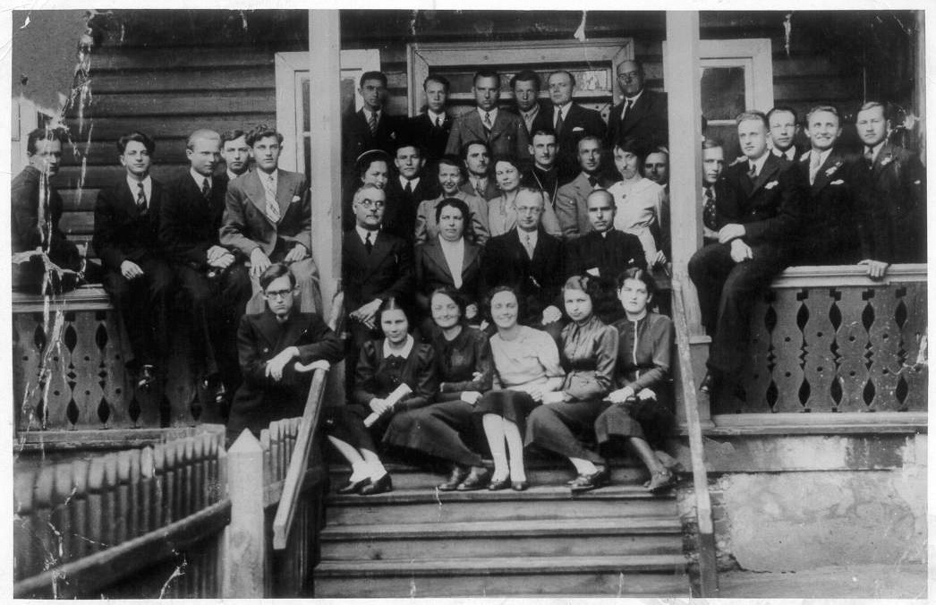 Graduates of Adam Mickiewicz Gimnazium in Pružany before examination Беларуская (тарашкевіца): Выпускнікі пружанскай гімназіі імя Адама Міцкевіча перад матурай. Другая справа ў ніжнім шэрагу — Раіса Жук-Грышкевіч.